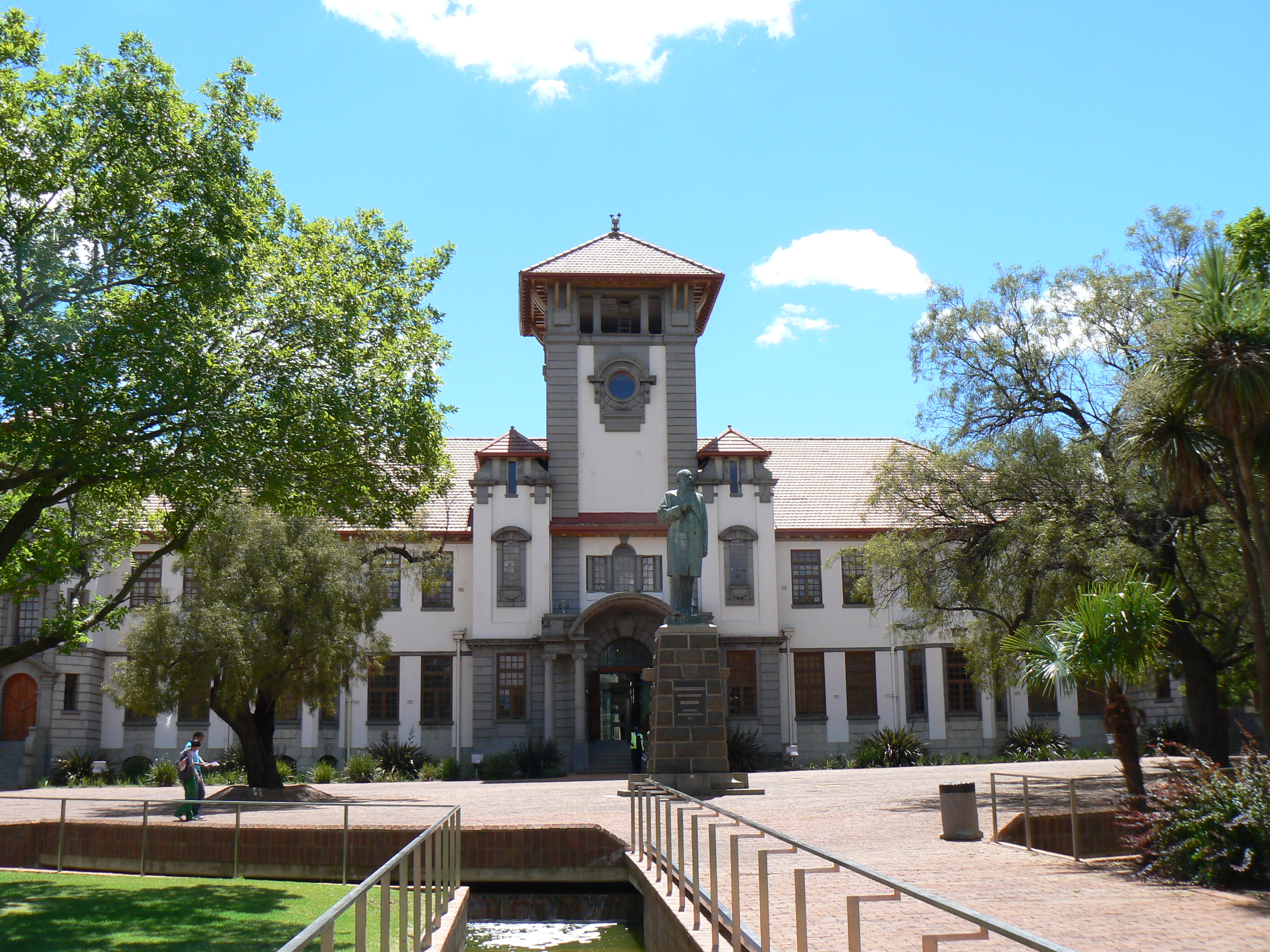 Main Building, University of the Orange Free State, Bloemfontein This media shows a South African Protected Site with SAHRA file reference 9/2/302/0064.